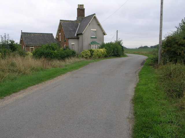 Old Gatehouse. The gate was for the Alford to Louth railway line that once crossed the road here.